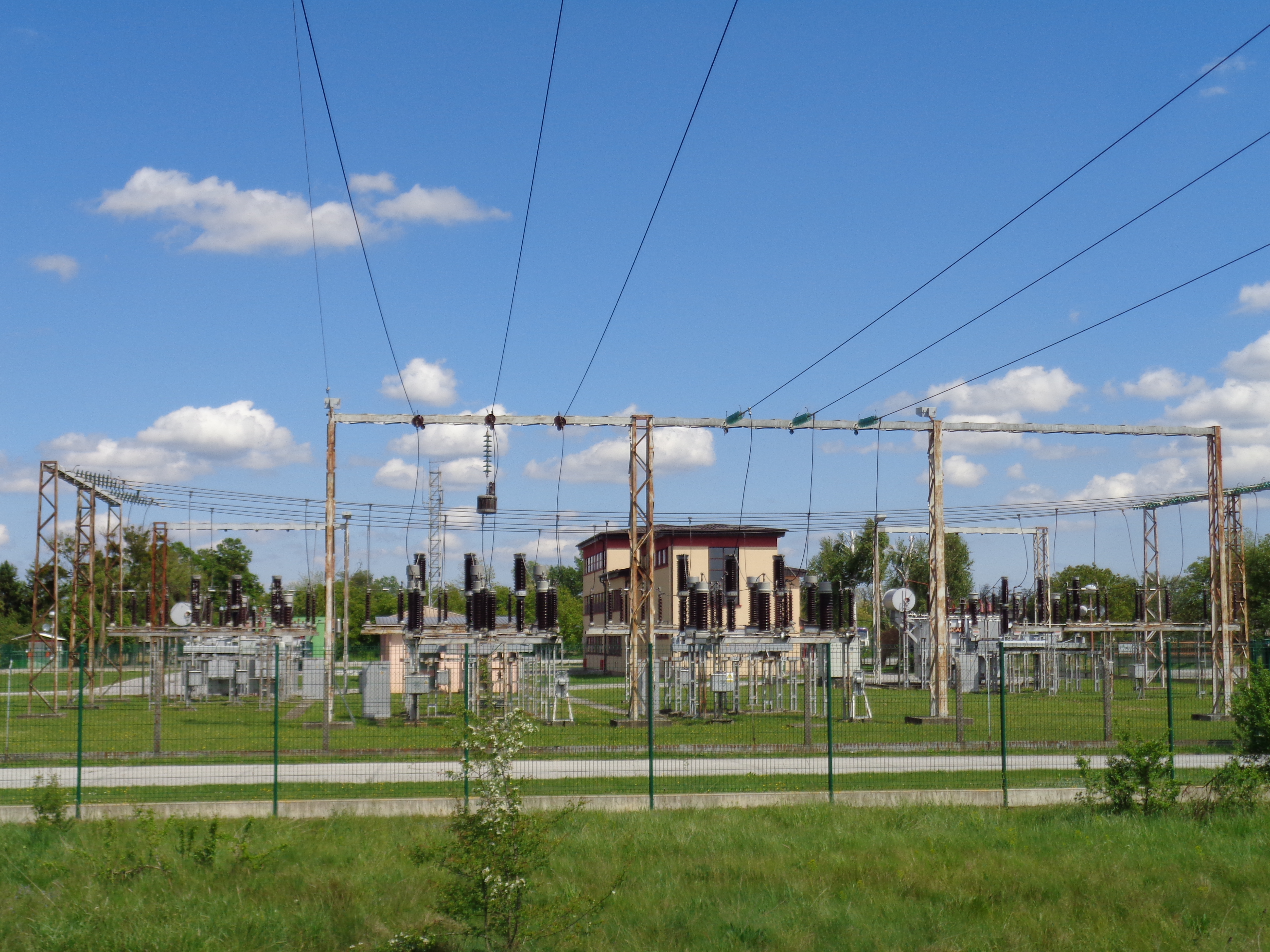 Part of the "Čakovec-West Industrial Zone", Čakovec, Medjimurie County, northern Croatia - high-voltage electrical station